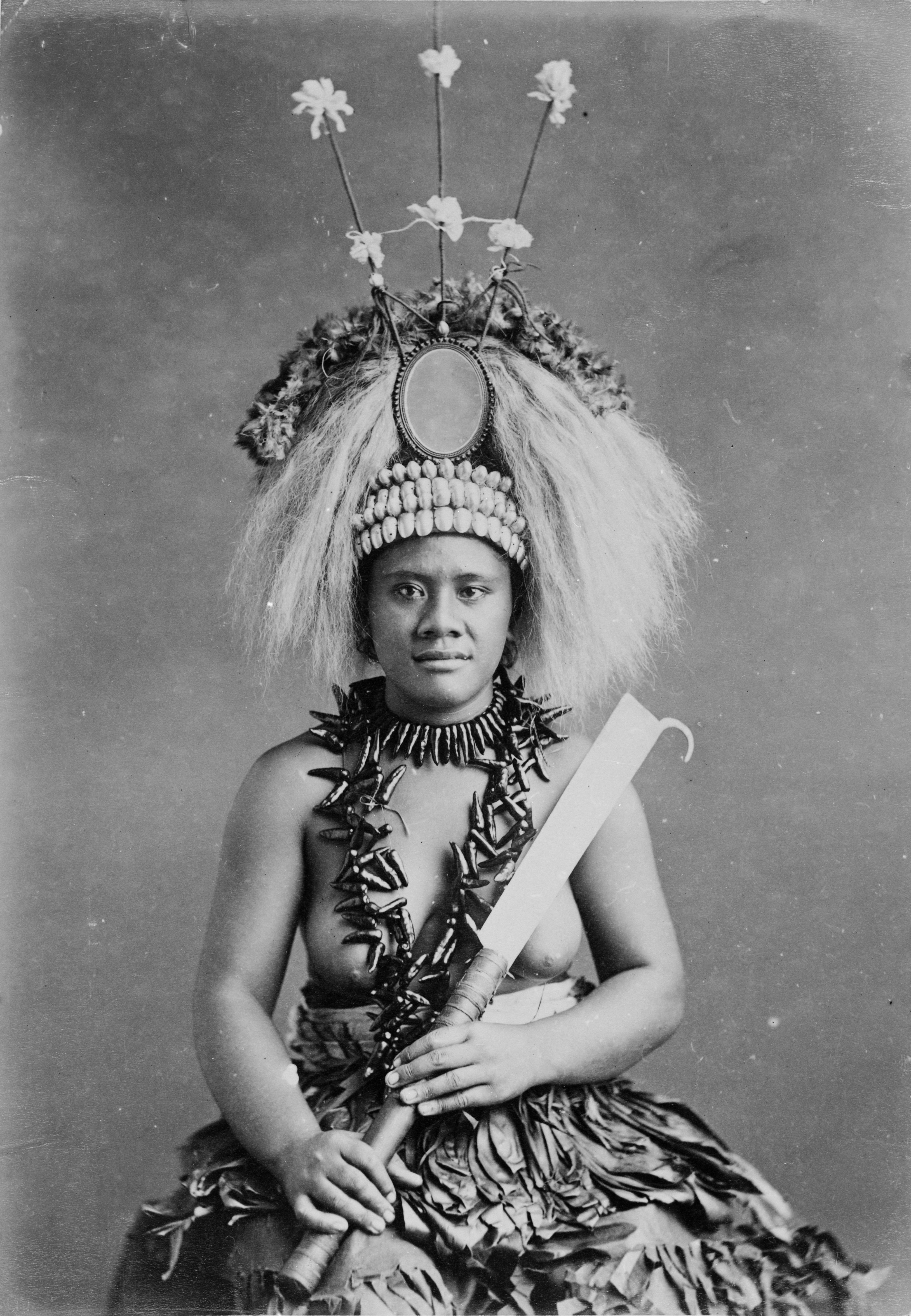 Samoan ceremonial dancer, [ca 1890s]. Reference Number: PA1-q-223-38-1. Samoan female ceremonial dancer, taken by Thomas Andrew during the 1890s.